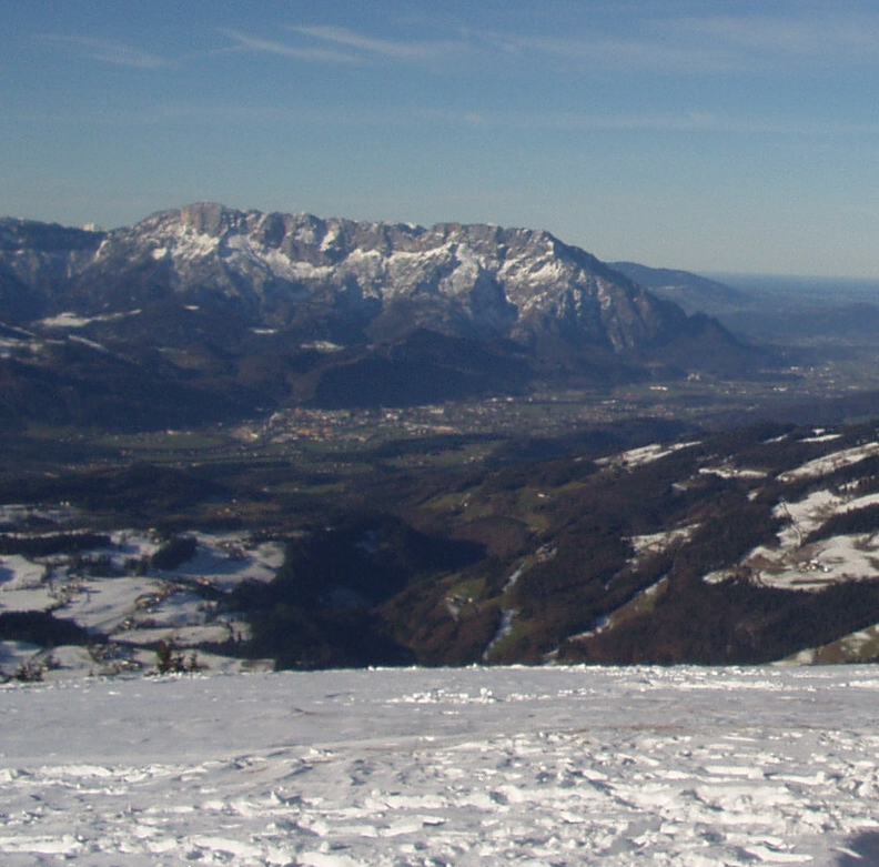 Hallein in the Salzach valley, Mount Untersberg in the background Photograph by Gakuro other Versions: Hallein_(2).jpg